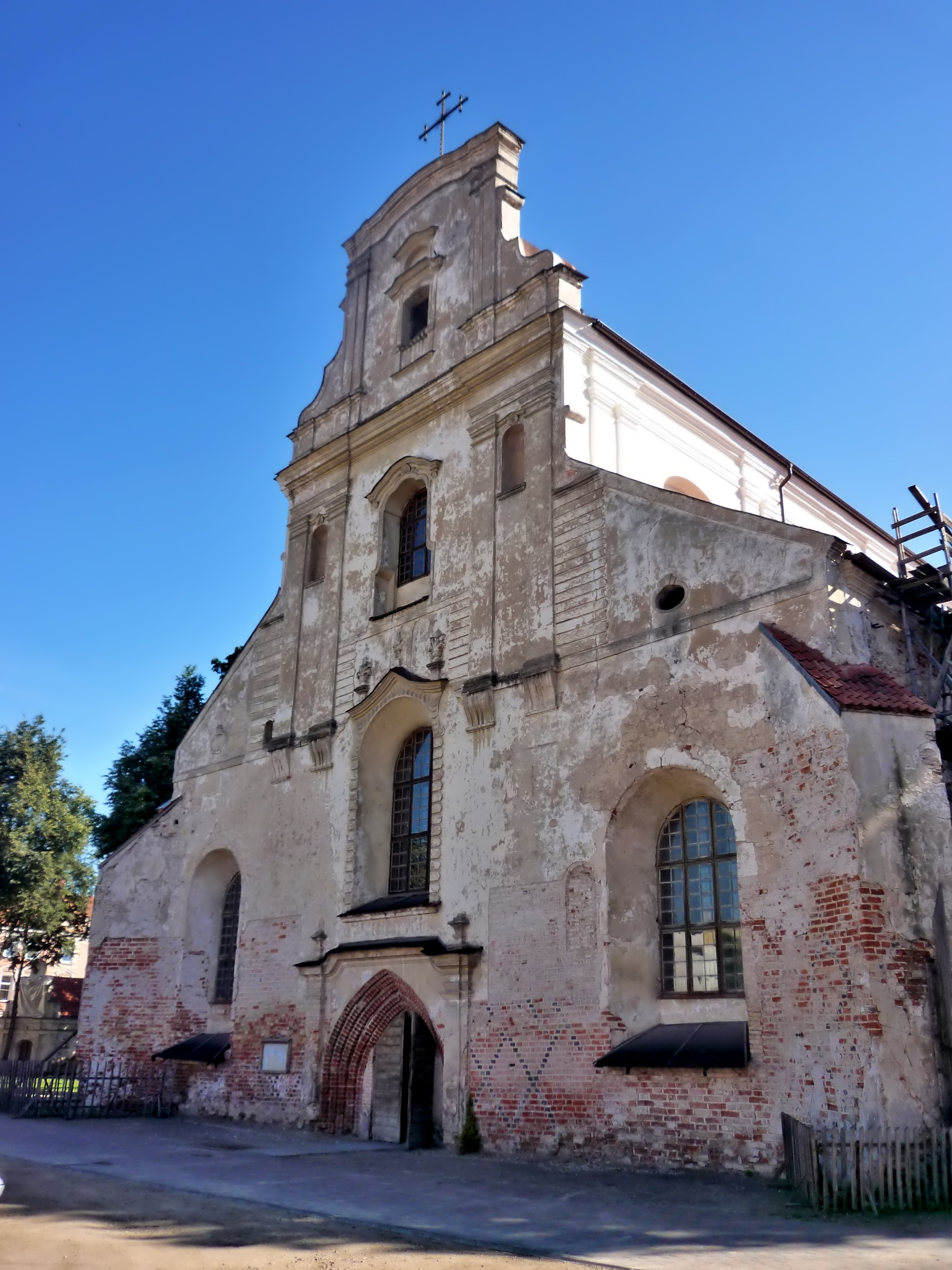 Vilnius - Franciscan church of Assumption B.V.M. (entrance)